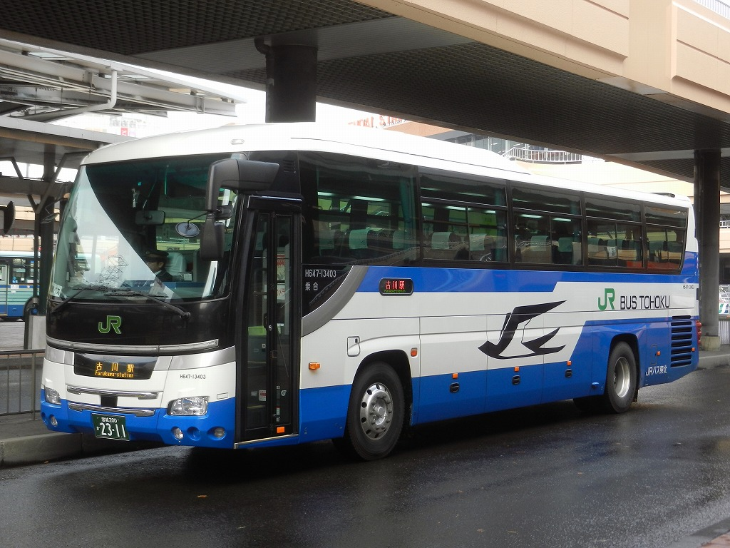 JR bus Tohoku Hino S'elega(QRG-RU1ASCA)for highwaybus "Sendai-Furukawa"